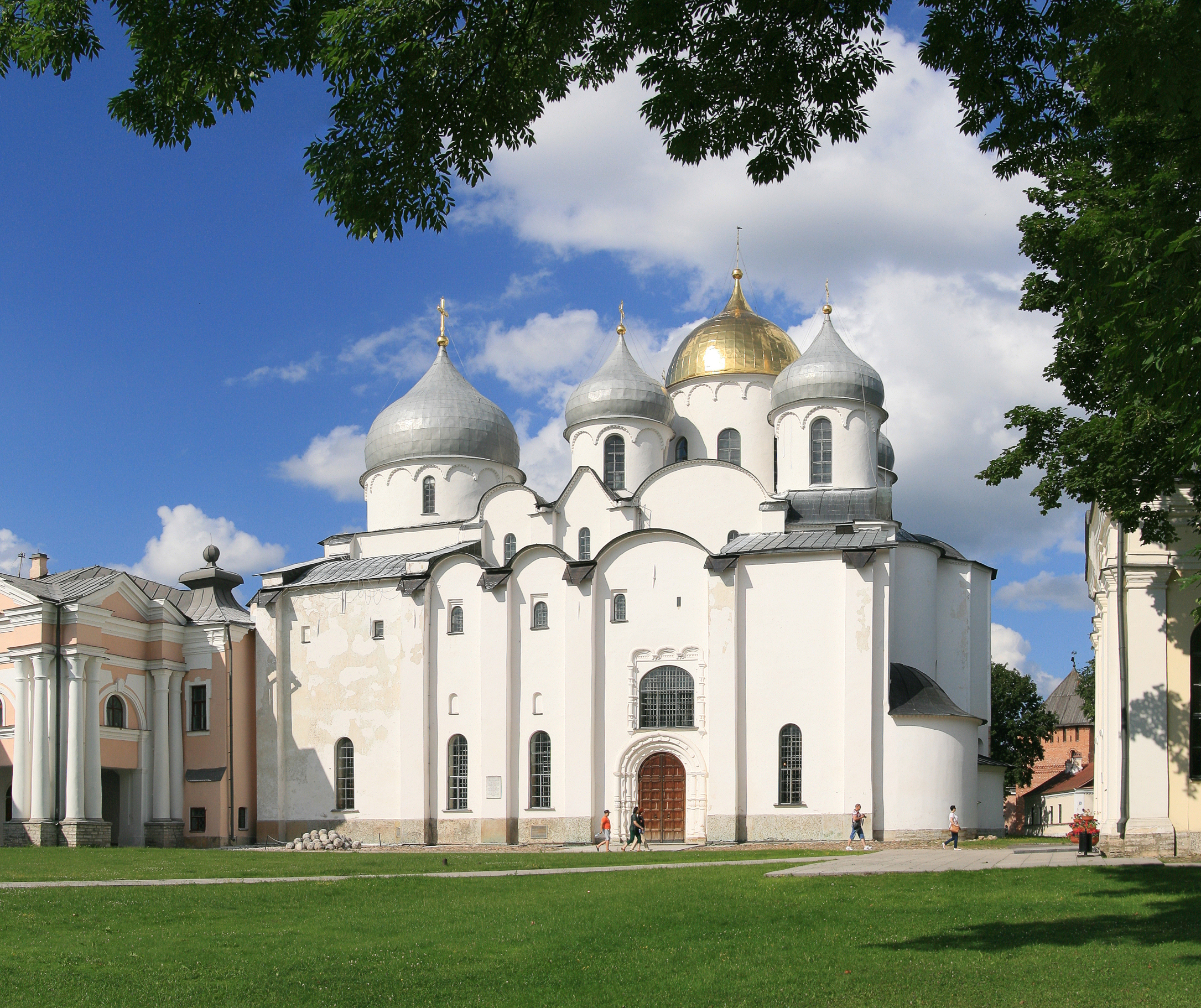 Cmique Itom: Saint Sophia Cathedral in Novgorod, 1045–1050